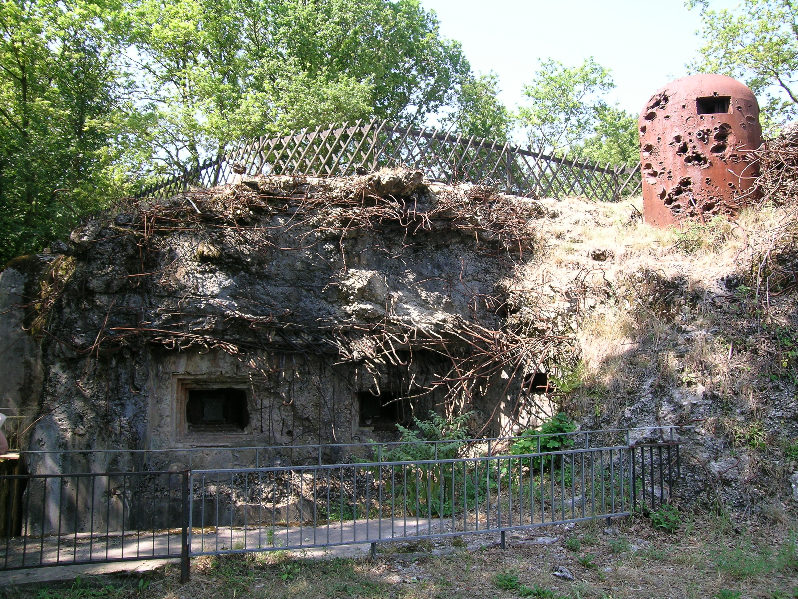 Bunker, bloc 2, Ouvrage Bambesch, Maginot Line, France